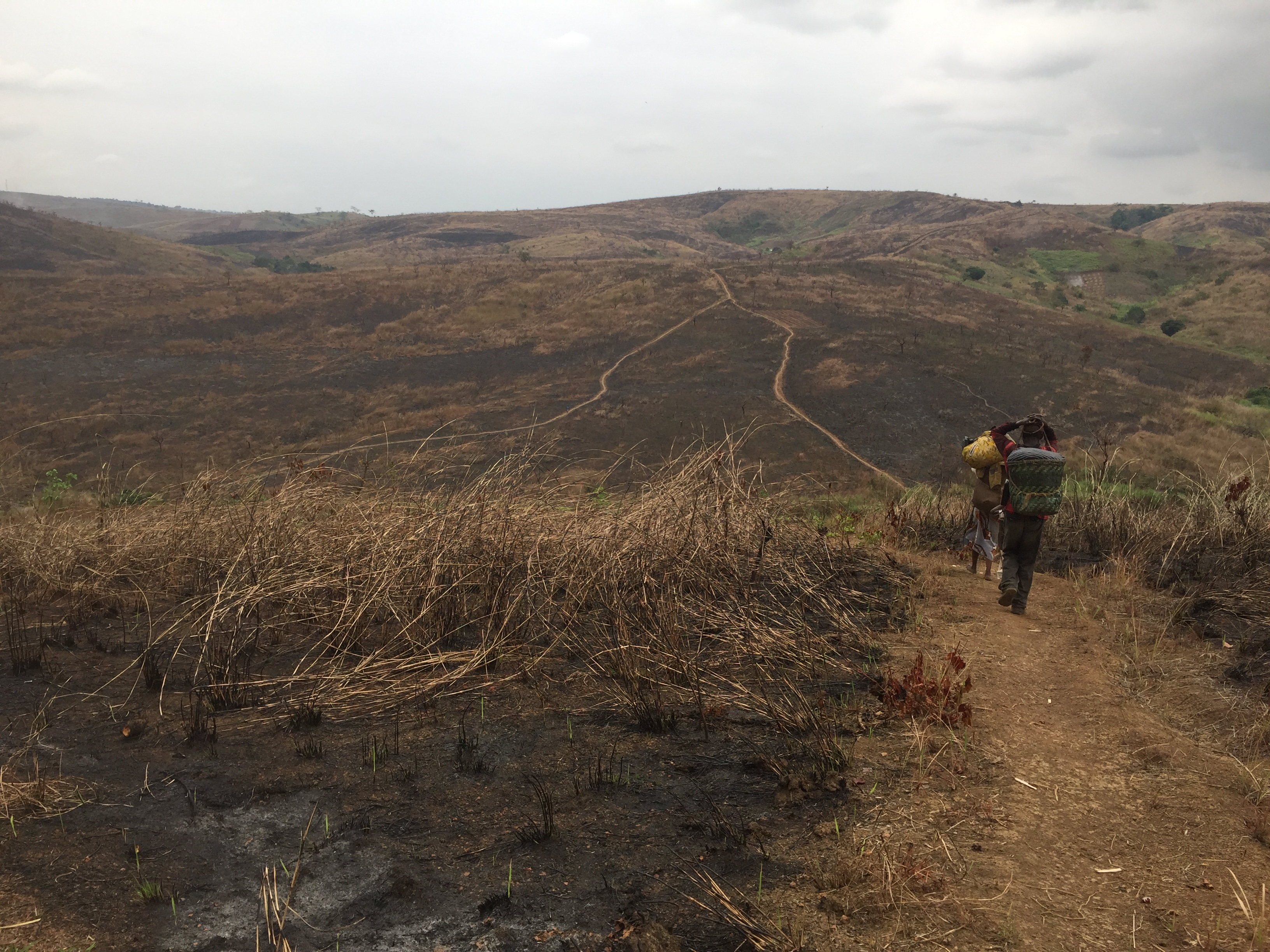 This is an image with the theme "Africa on the Move or Transport" from: Congo